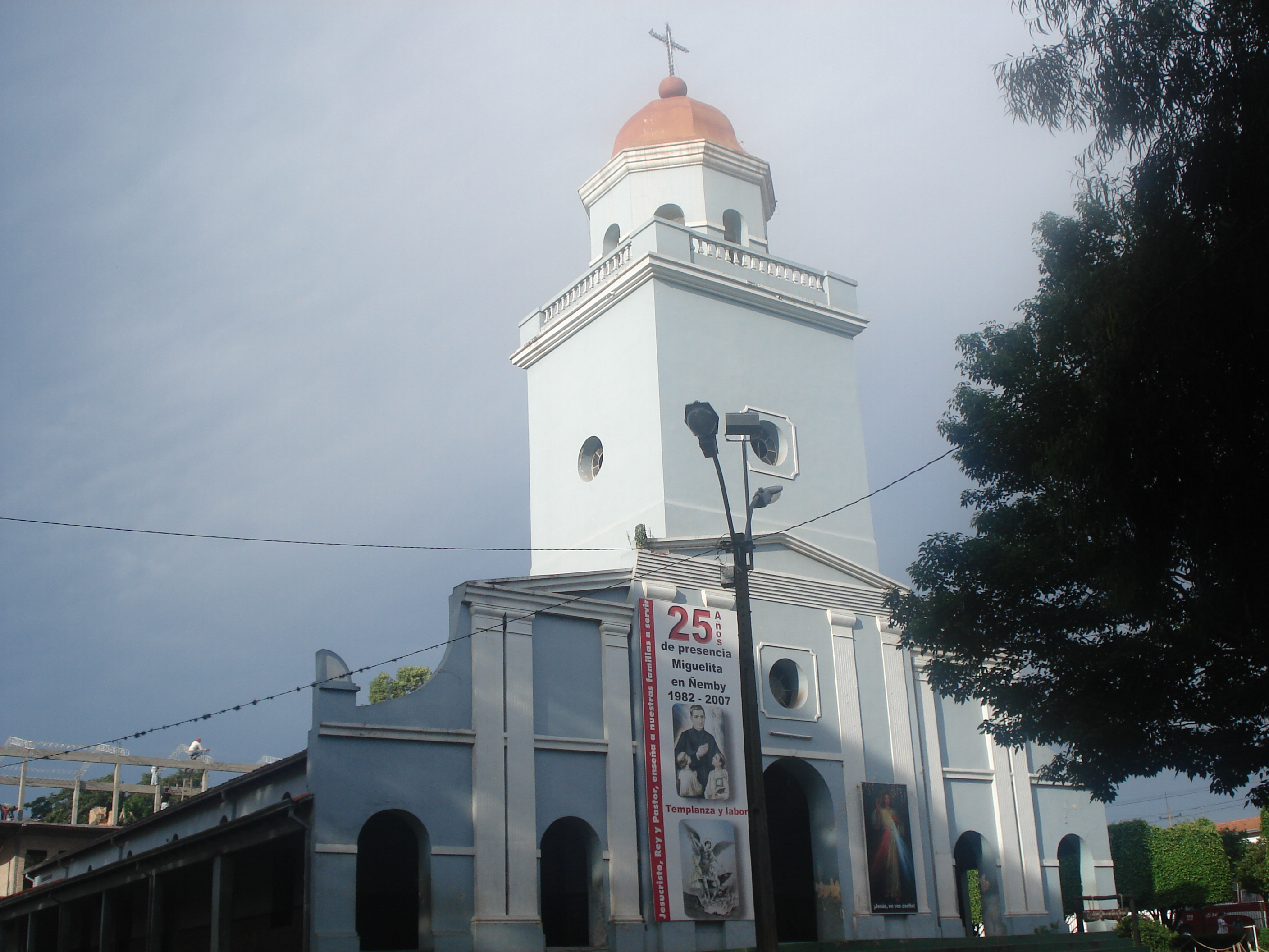 iglesia de Ñemby, Departamento Central Paraguay